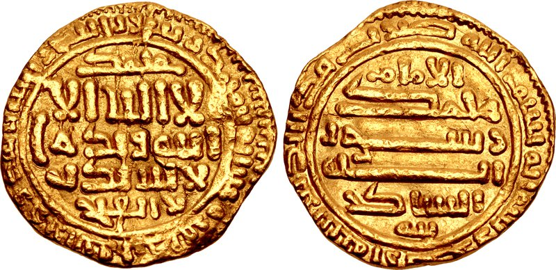 ISLAMIC, al-Maghreb (North Africa). Midrarids. al-Shakir Muhammad ibn al-Fath. AH 321-347 / AD 933-958. AH 321-347 / AD 933-958. AV Dinar (21mm, 4.06 g, 3h). Unnamed (Sijilmasa) mint. Hazard 548; Lavoix –; Album 499.2. Good VF, areas of light toning, traces of deposits and slight doubling on reverse.